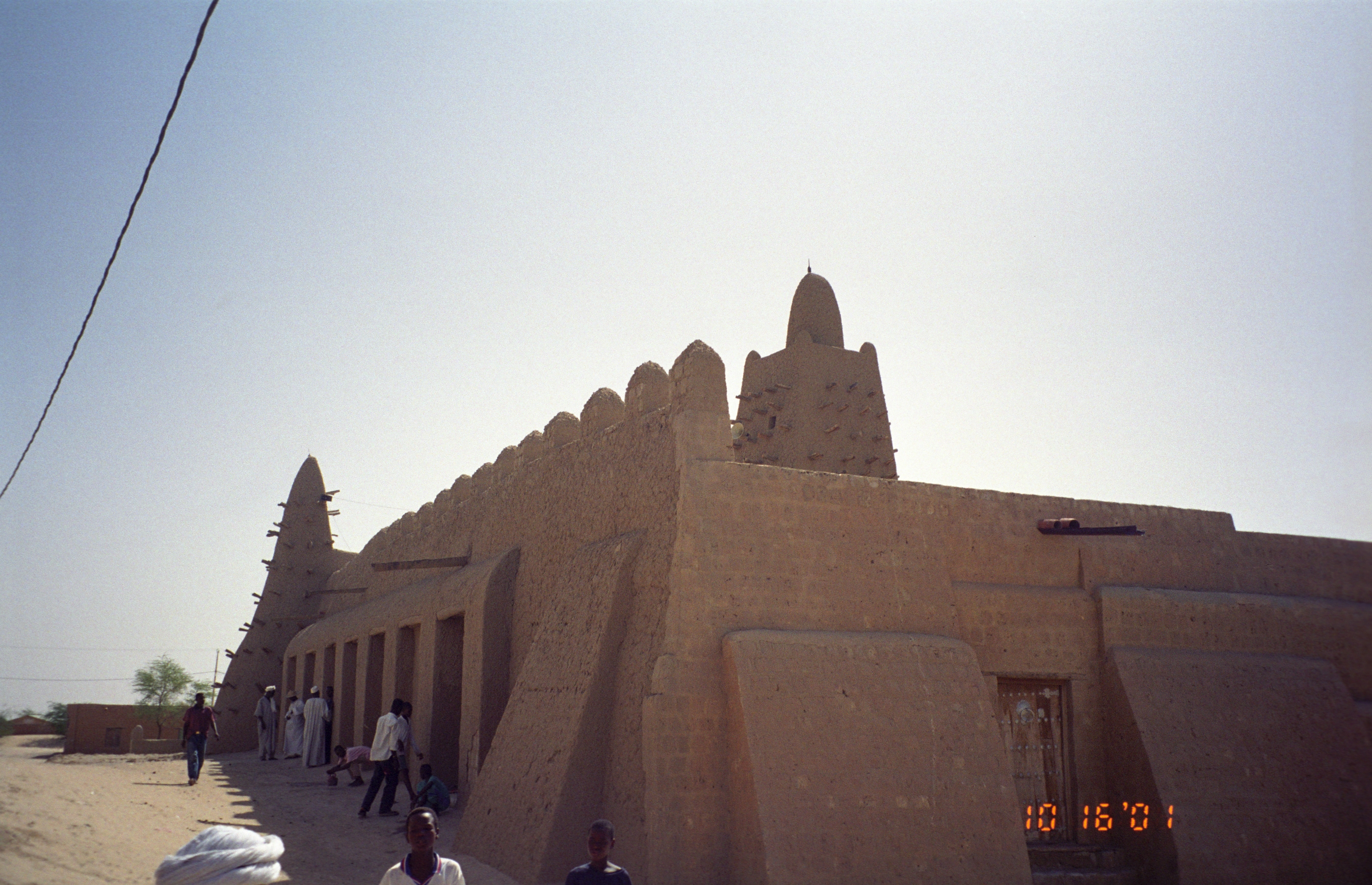 Djinguereber Mosque, Timbuktu, the oldest mosque in the city. timbuktu gets so little rain, the mud-mosques don't melt here. so they can age, without being rebuilt every year, unlike most of the rest of mali